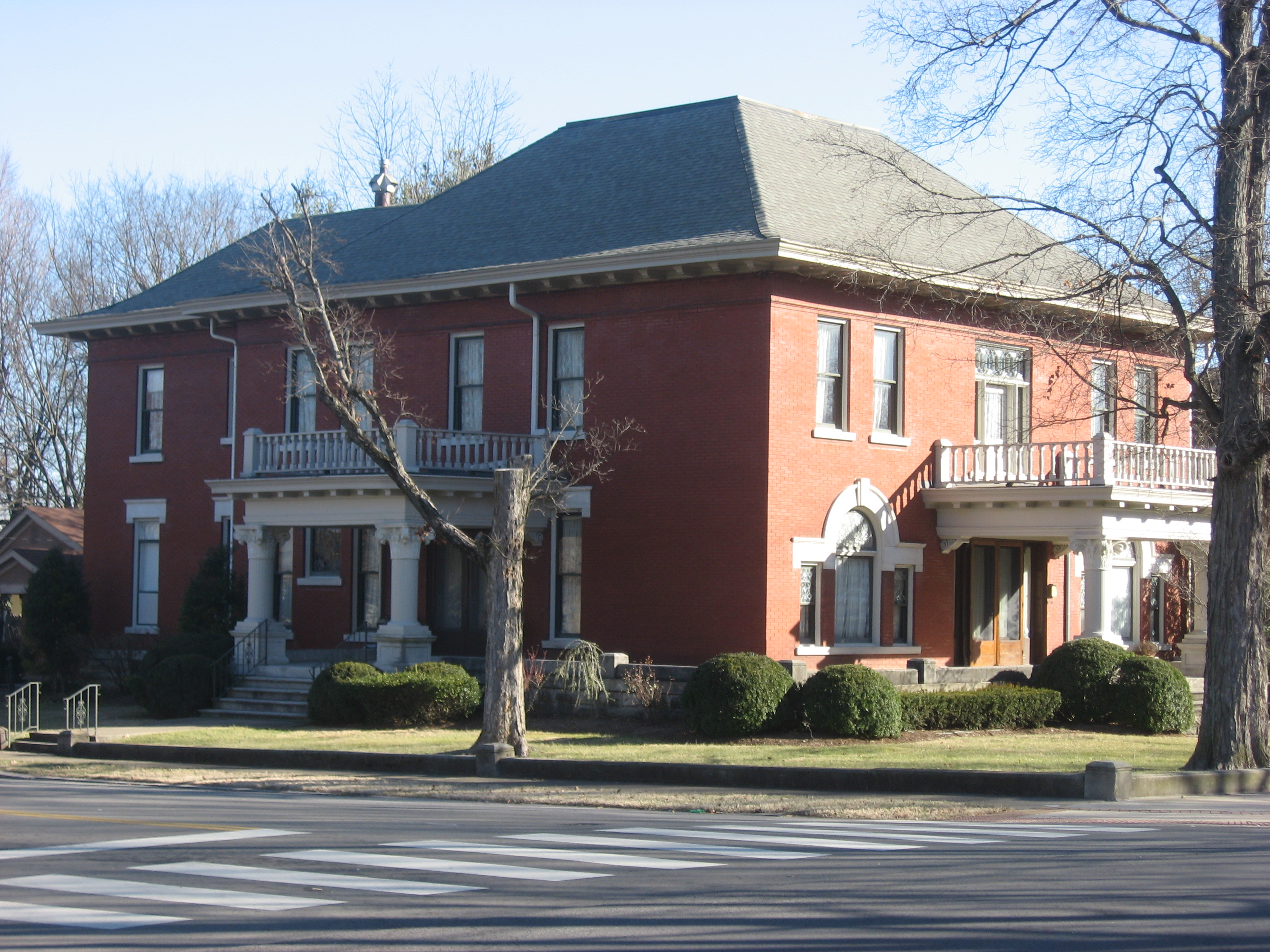 Front and western side of the Mollie and Neel Glenn House, located at 307 Fifth Avenue (State Route 49) in Springfield, Tennessee, United States. Built in 1906, it is listed on the National Register of Historic Places.